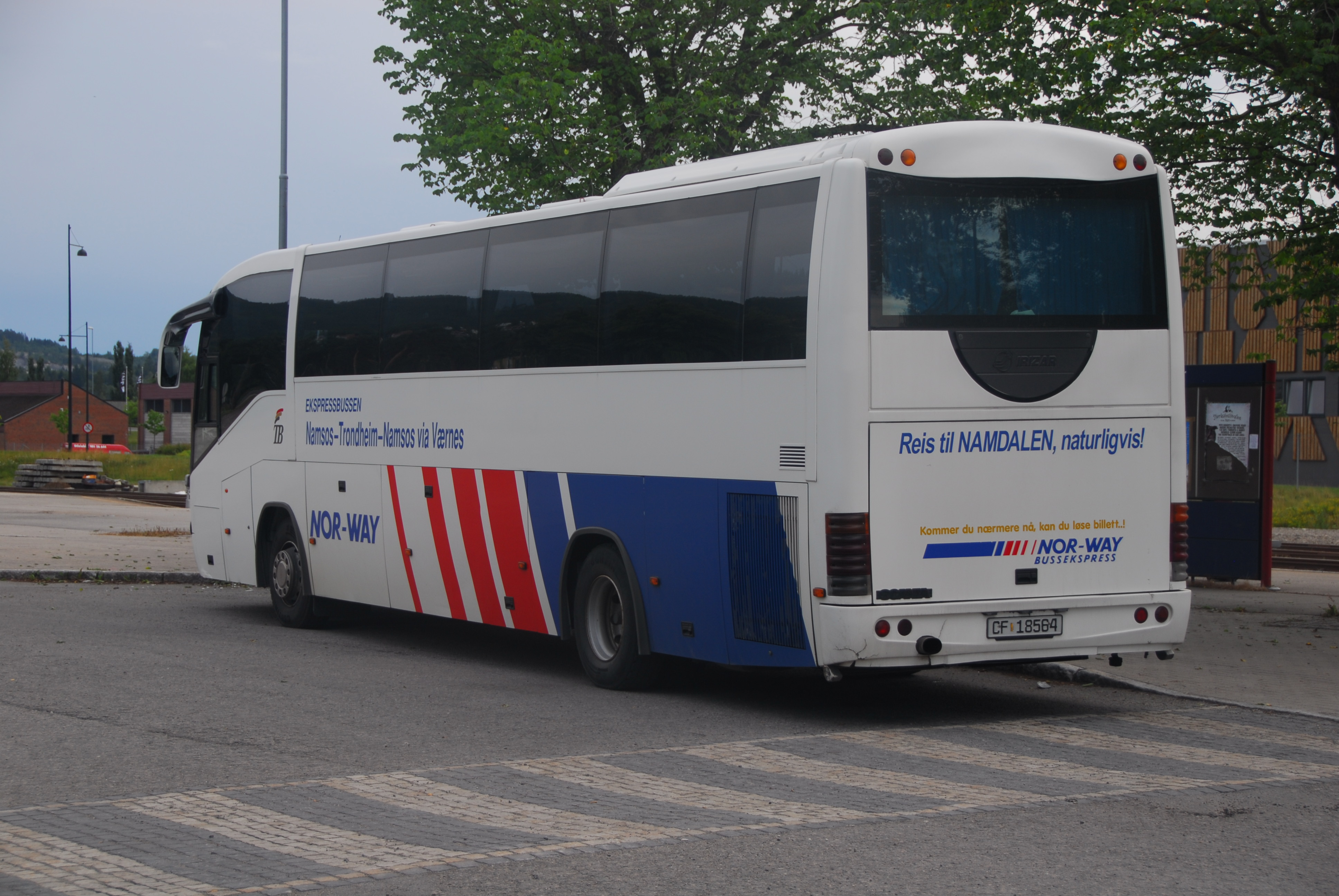 A TrønderBilene coach branded as Nor-Way Bussekspress Trondheim–Værnes–Steinkjer–Namsos at Steinkjer Station, Norway.